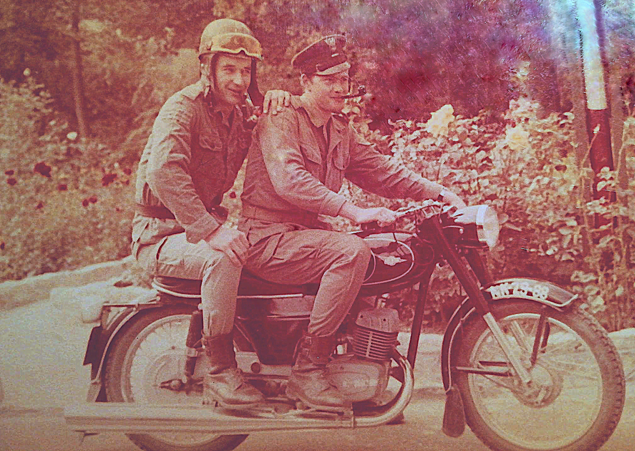 WOP post in Krasne Pole